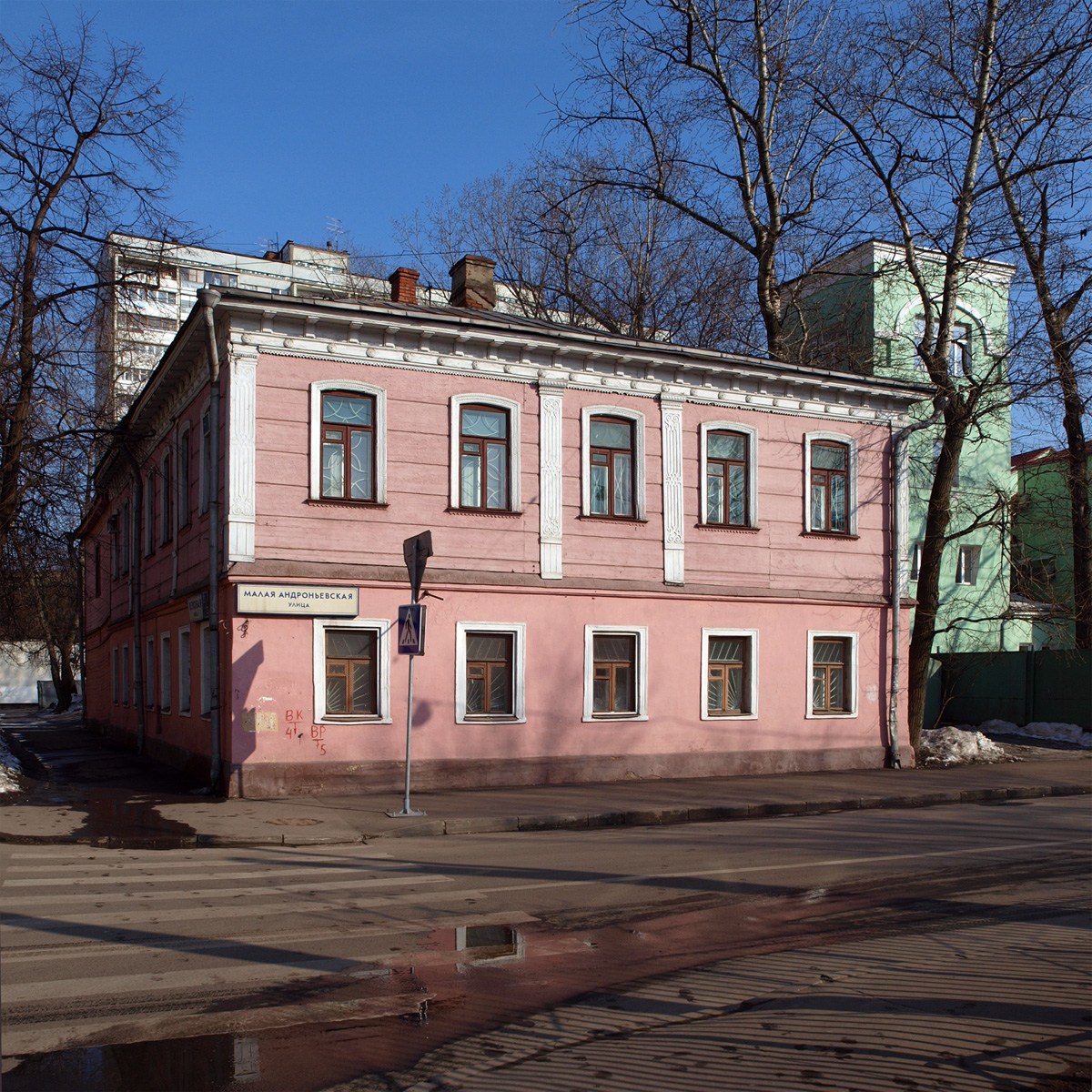 Corner of Malaya Andronyevskaya Street and Vekovaya Street Moscow.